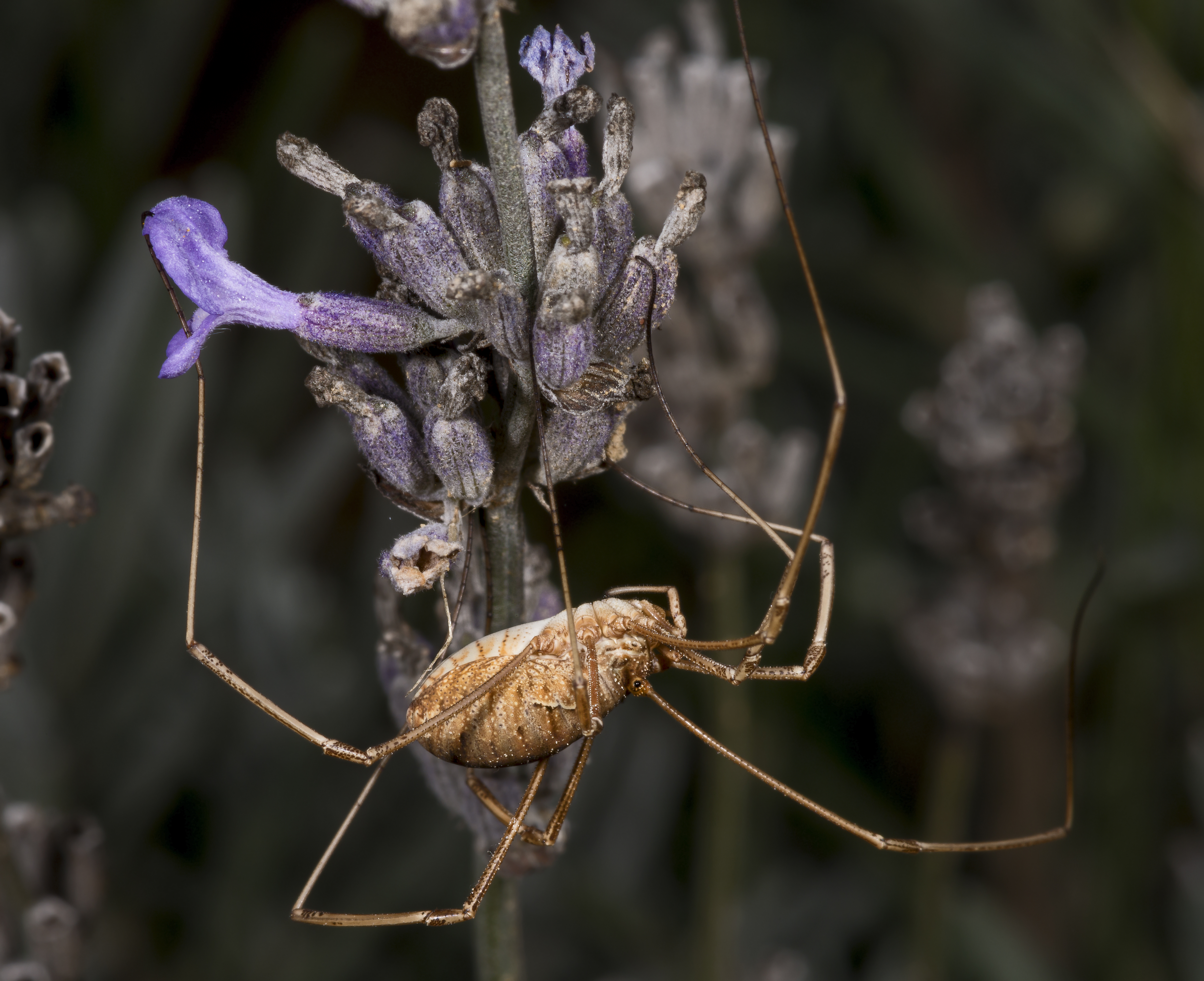 Phalangium opilio, side view